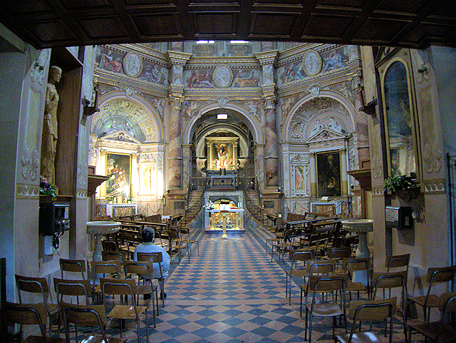 A view inside the shrine of Santa Maria della Croce, Crema, province of Cremona, Italy